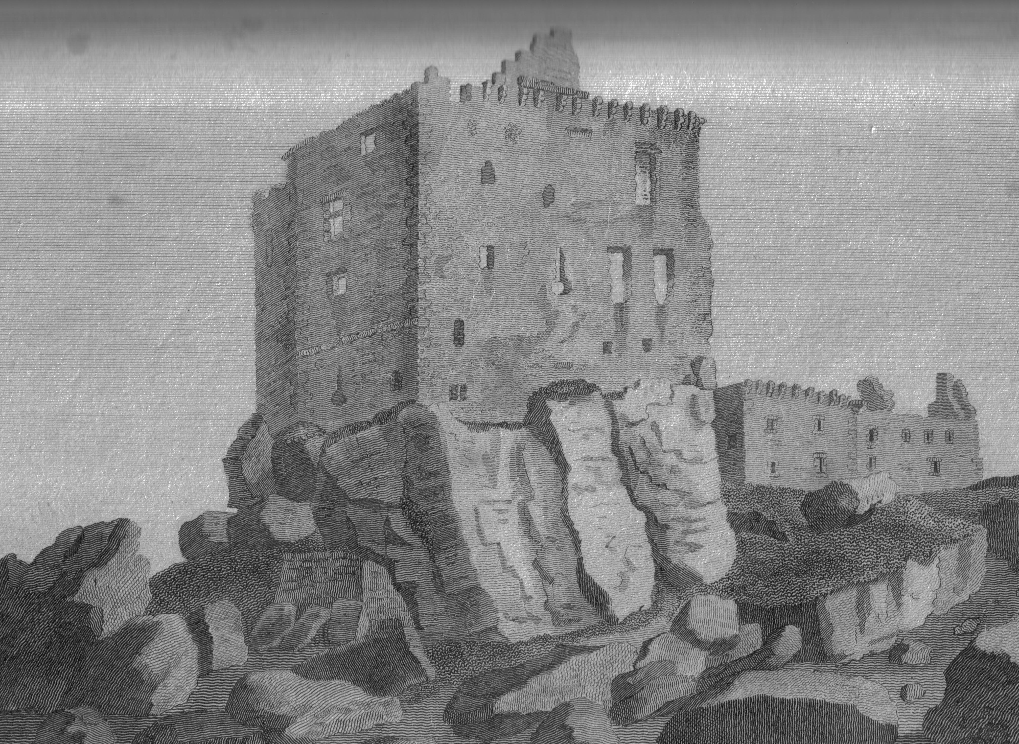 A view of the keep of Dunure Cstle, Ayrshire, Scotland.